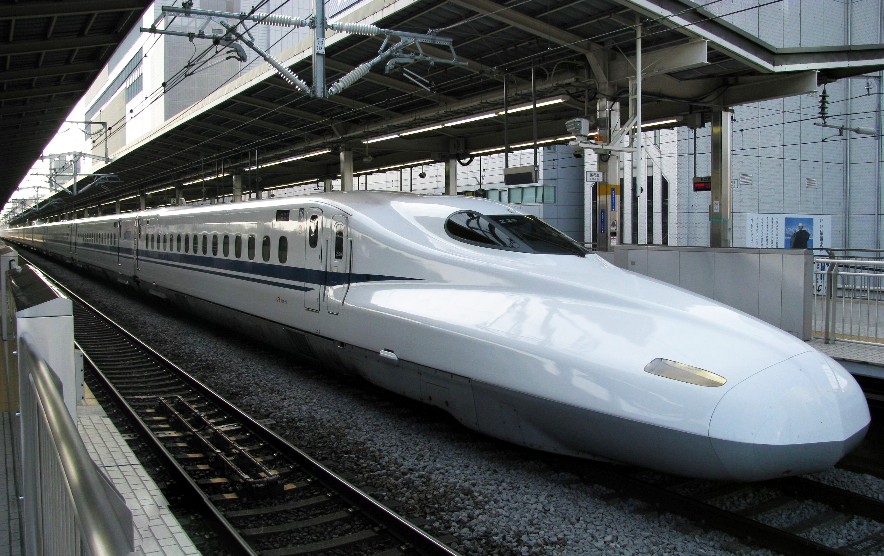 The N700 series of JR Central Tōkaidō Shinkansen. This place is Shin-Yokohama Station in Kōhoku-ku, Yokohama Kanagawa Prefecture, Japan.